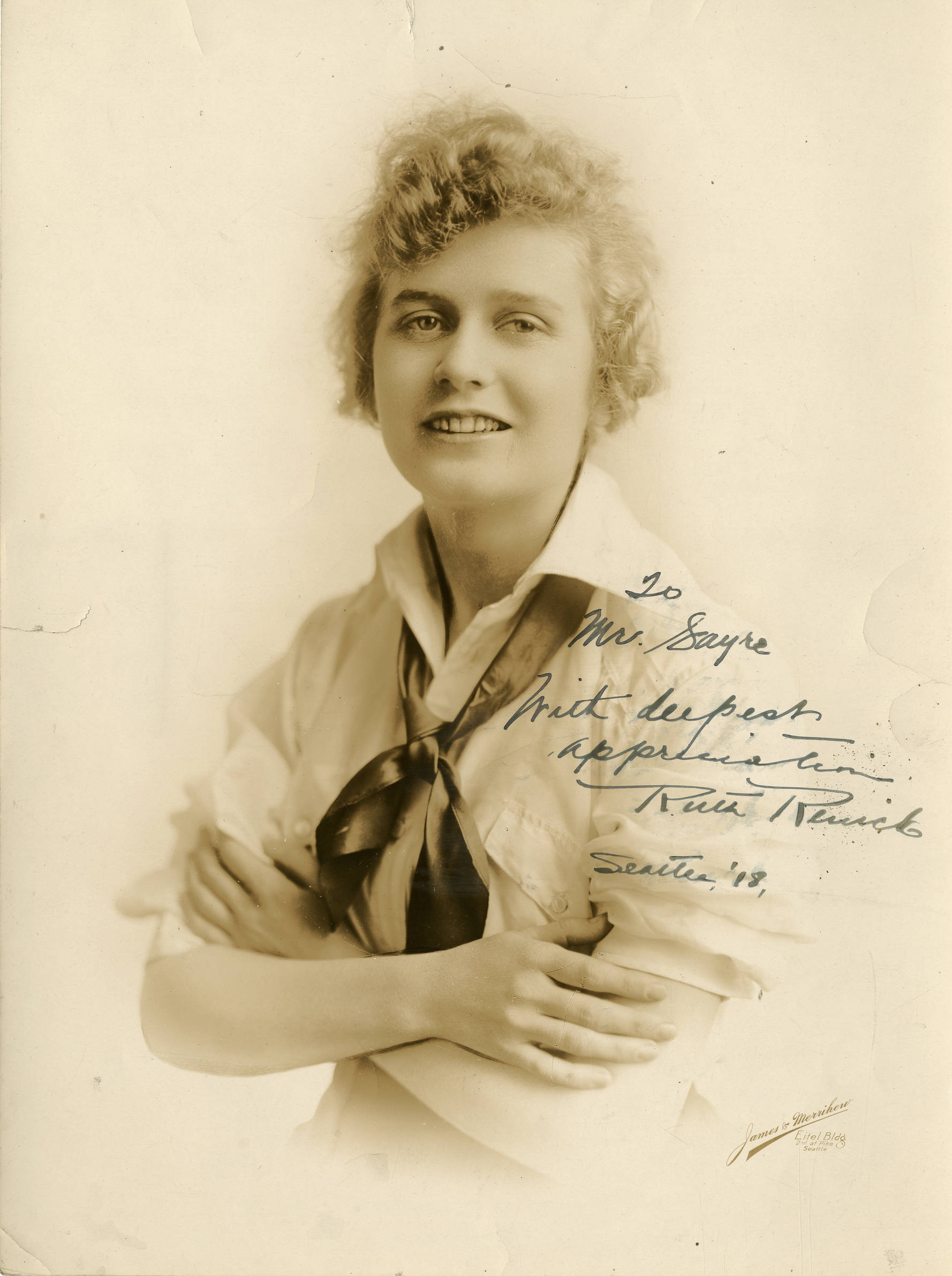 Ruth Renick, stock actress Subjects: actresses